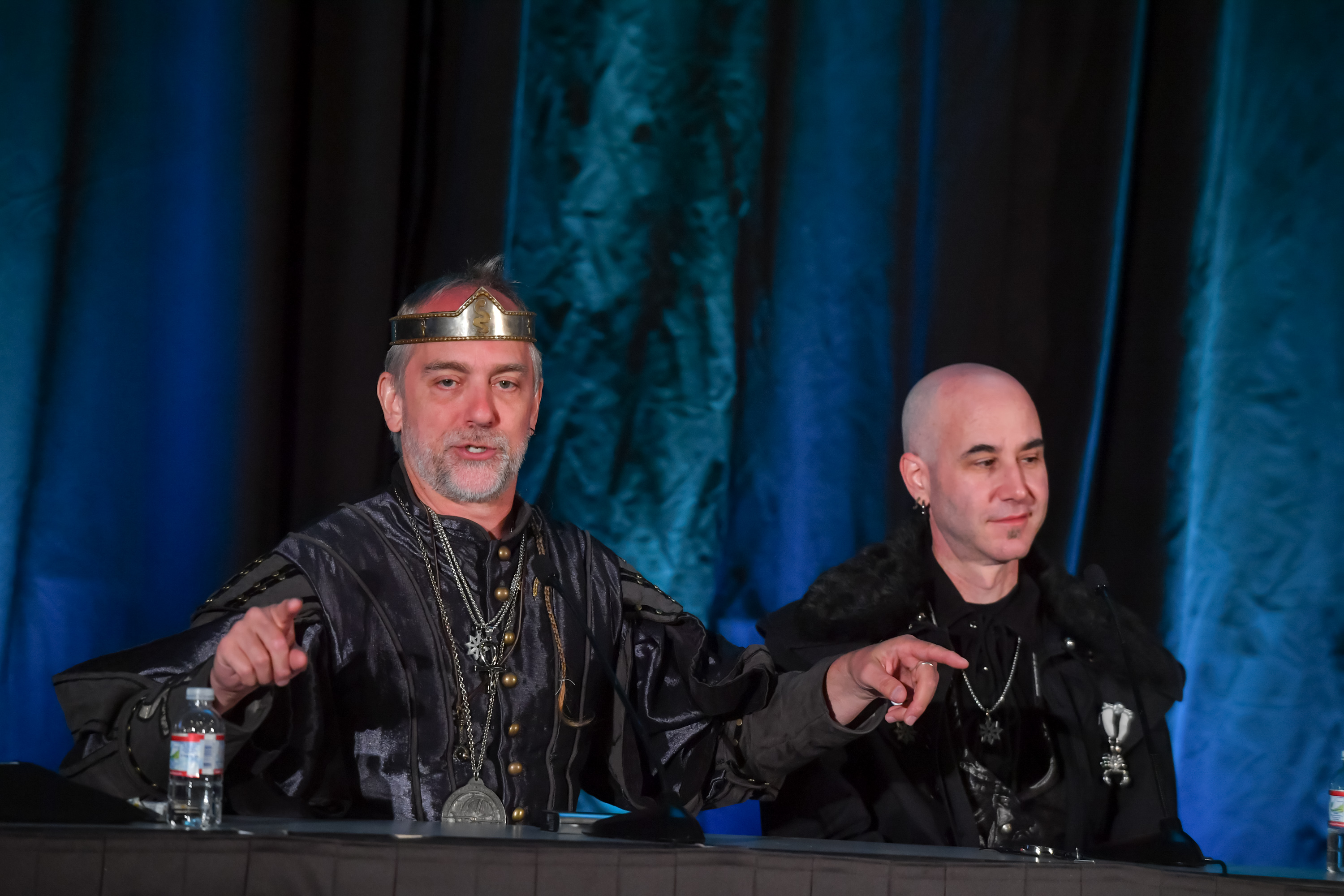 Richard Garriott (left, dressed as his Lord British persona) and Starr Long at the 2018 Game Developers Conference (March 20-23, 2018, SF)